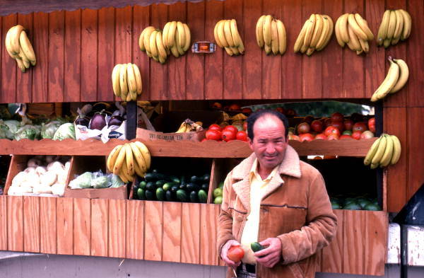 Local call number: FS8041A Title: Fruit and vegetable stand in Little Havana: Miami, Florida Date: ca. 1980 Accompanying note: "'Little Havana' is a section of Miami located just south of downtown, bordered by Calle Ocho to the north and Coral Gables to the south. Formerly an area of decaying neighborhoods and shuttered businesses, 'Little Havana' exists today as a thriving Latin marketplace and tourist attraction, while serving as home to over one-quarter of metropolitan Dade County's Hispanic population." Physical descrip: 1 slide - col. Series Title: Repository: 500 S. Bronough St., Tallahassee, FL 32399-0250 USA. Contact: 850.245.6700. Persistent URL